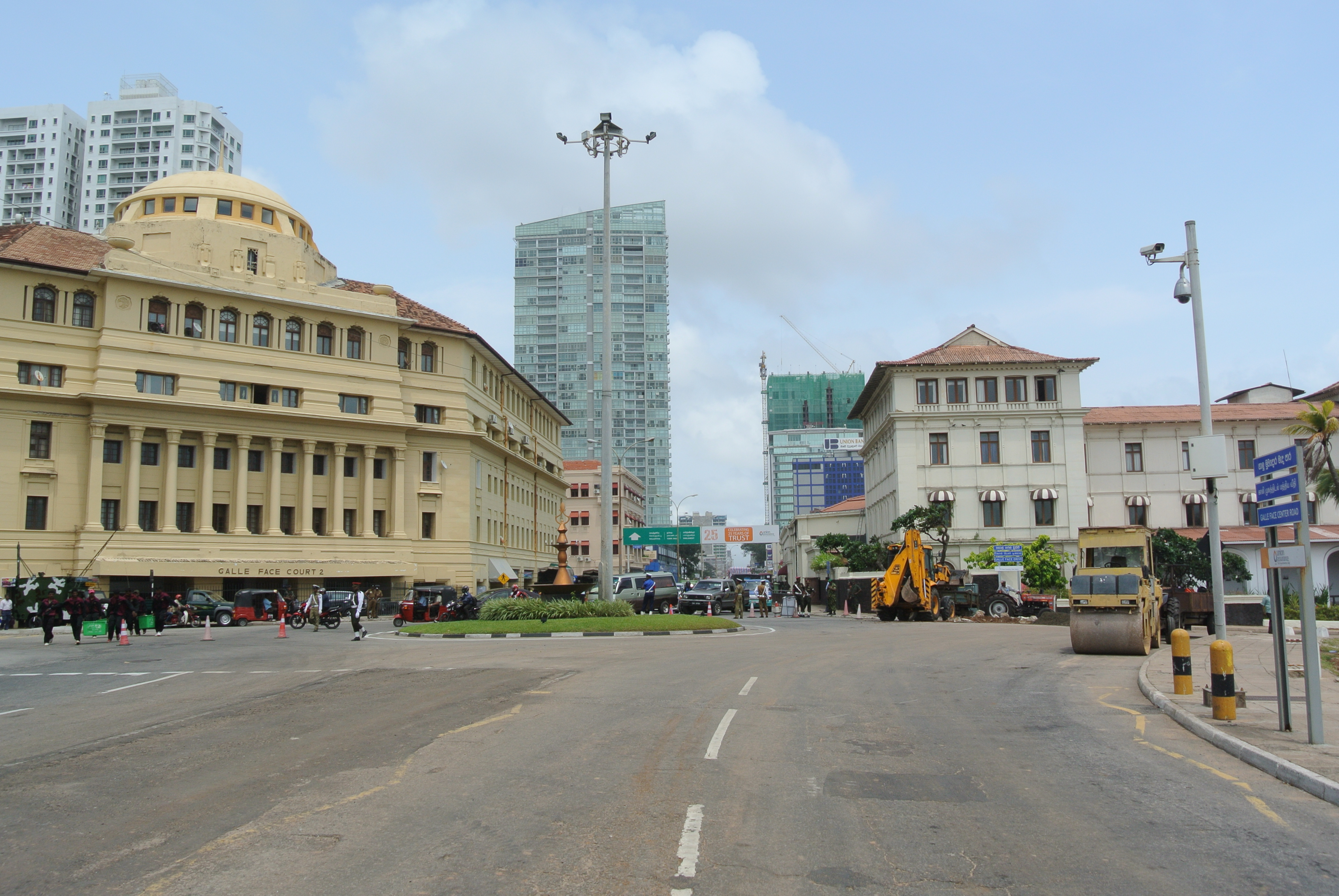 Roundabout located on the highway A2 between Galle Face Center Road (to the north) and Galle Road (to the south) in Colombo. Galle Face Court on the left.